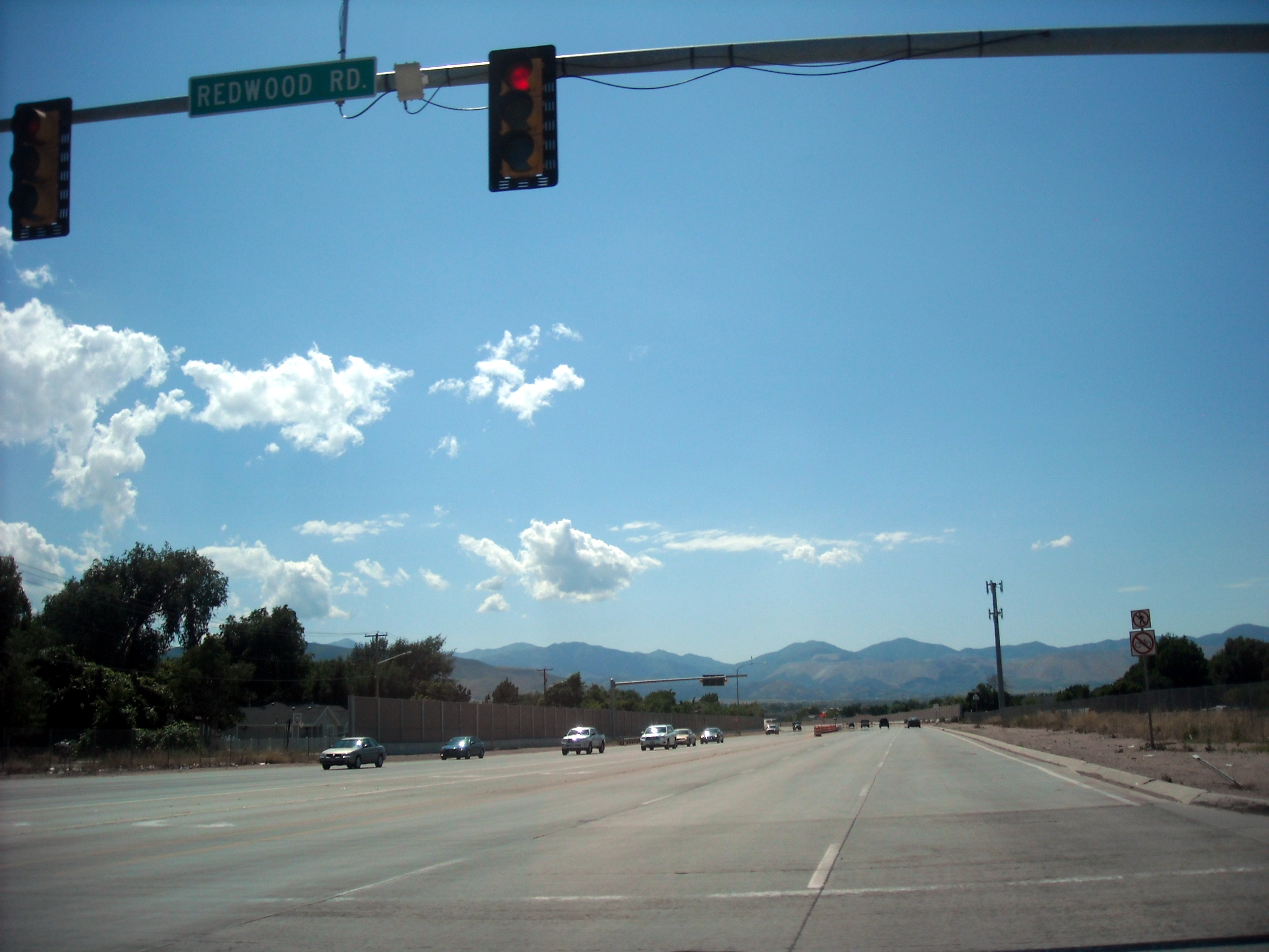 A view of westbound Bangerter Hwy (SR-154) from Redwood Rd (SR-68)